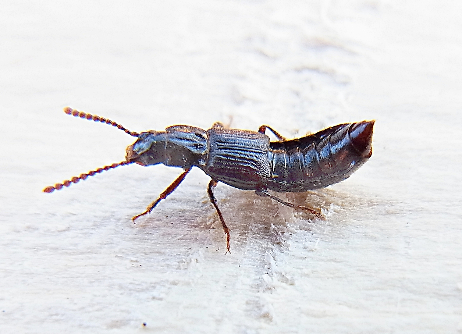 Coprophilus striatulus from France, near Mulhouse